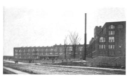 Photograph of American Bank Note Printing Plant exterior. Photo appears to have been taken from Tiffany Street, looking North East.